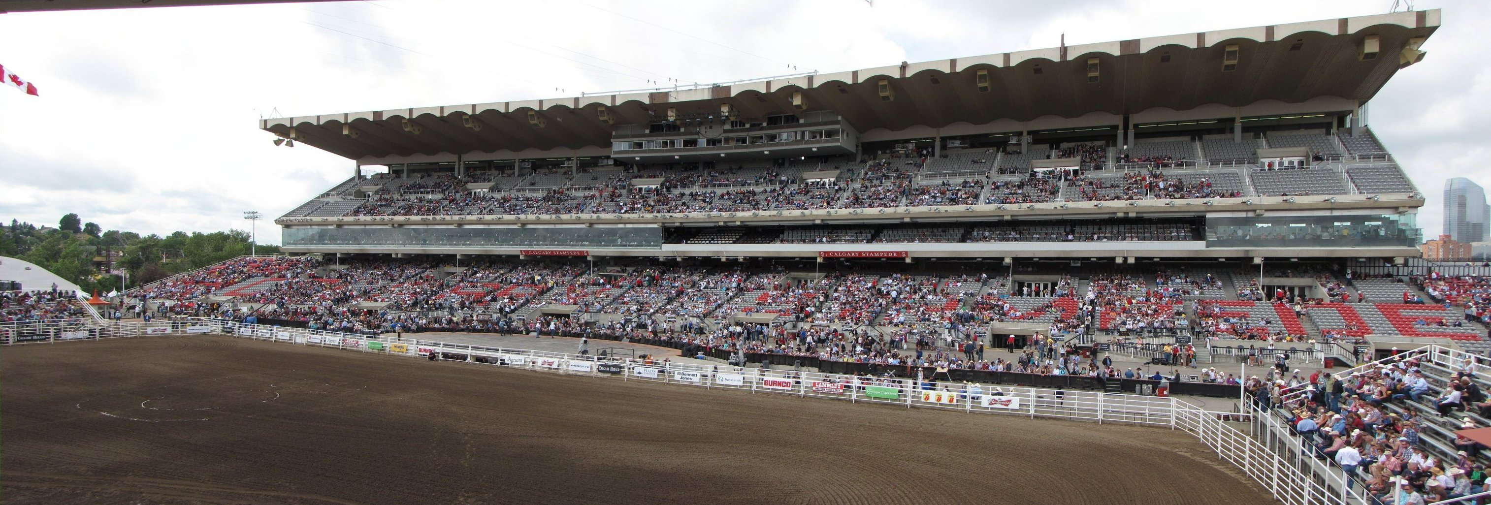 Stampede Grandstand, Calgary.